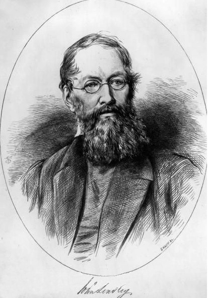 John Lindley (1799-1865)